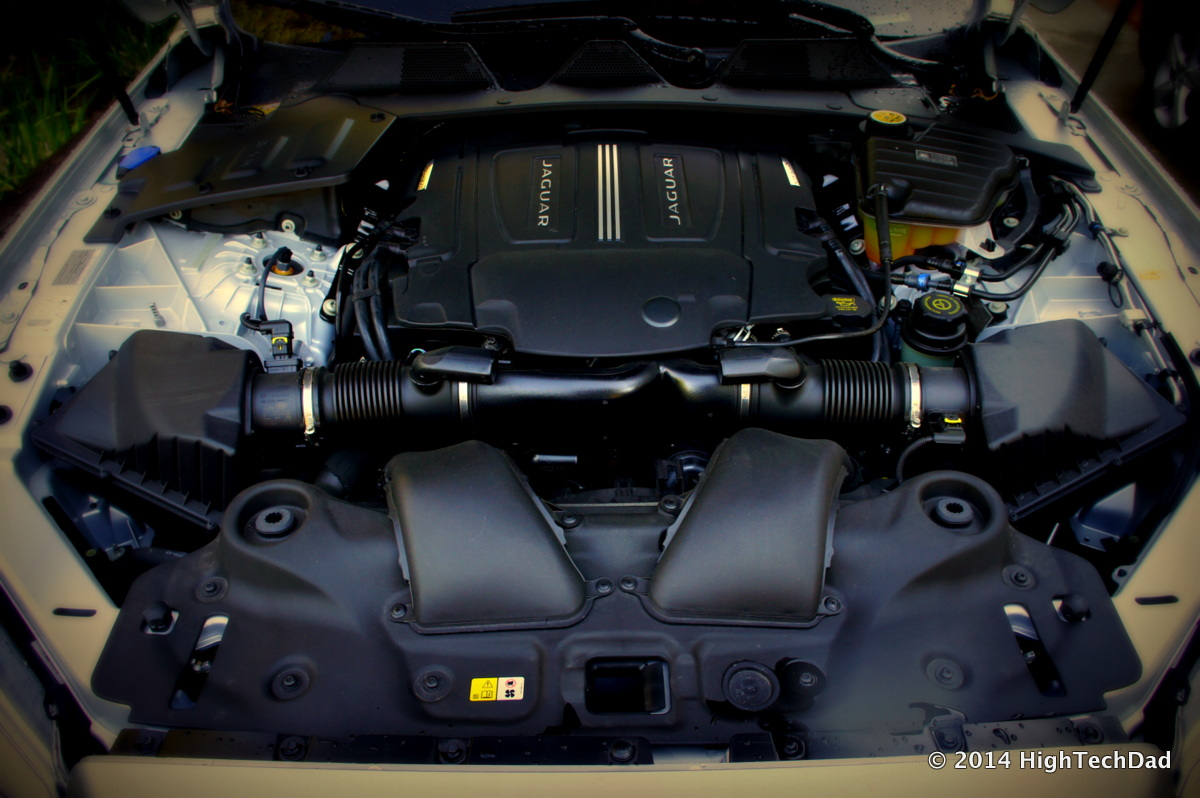 Photos of the 2014 Jaguar XJL Supercharged. For more car and other reviews, please visit